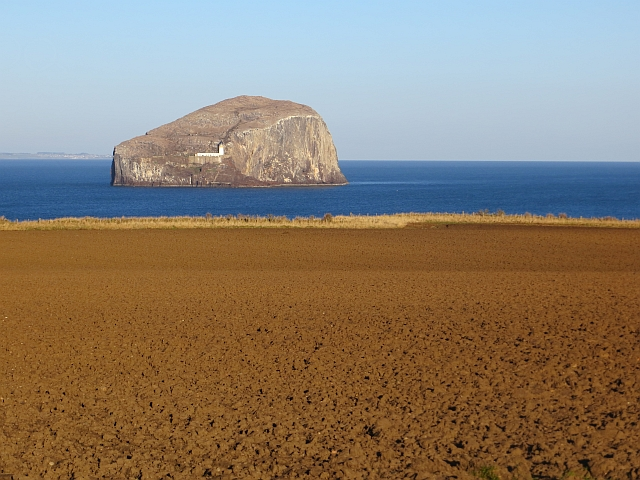 Ploughed field, Auldhame